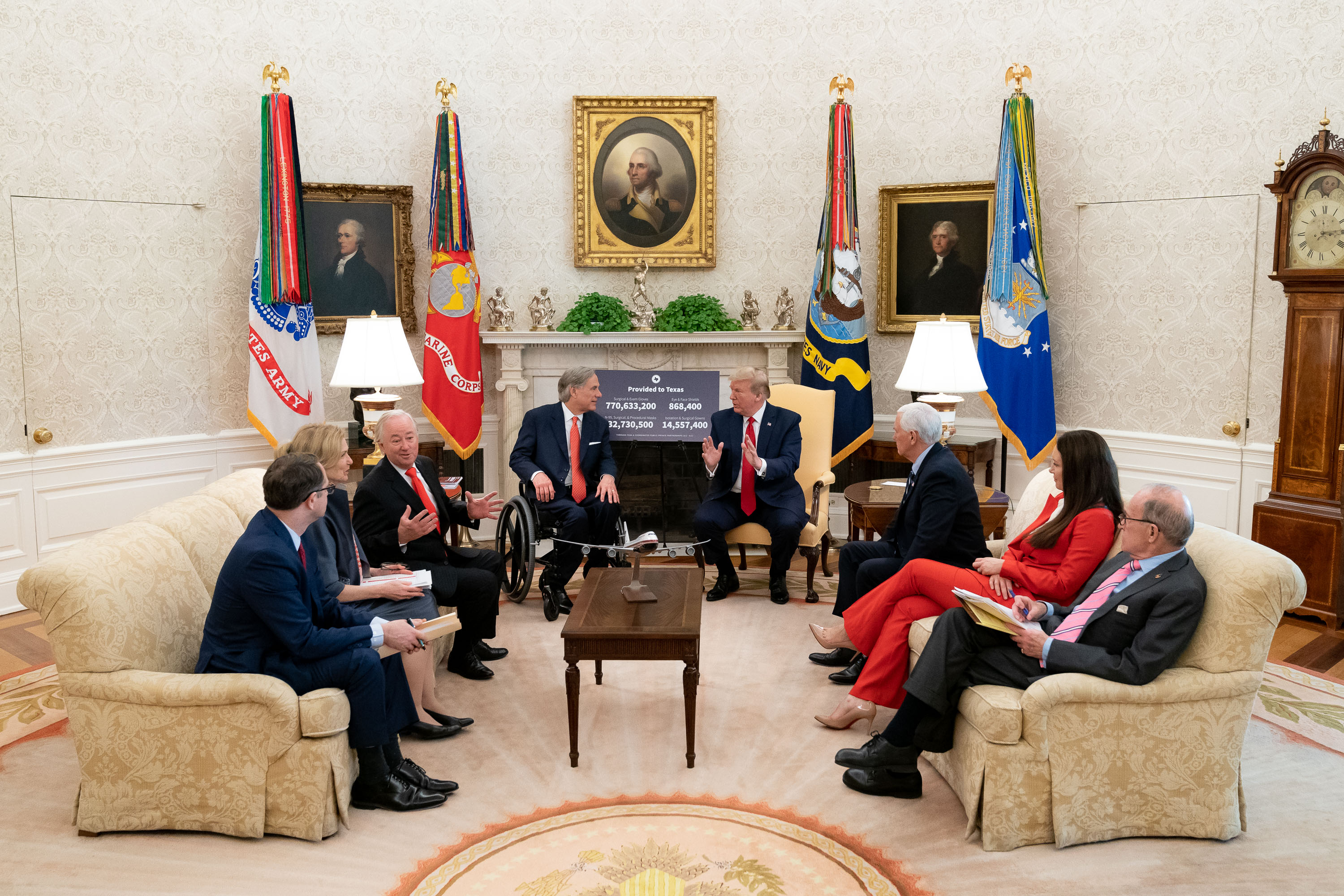 President Donald J. Trump, joined by Vice President Mike Pence and members of the White House Coronavirus Task Force, meets with Texas Gov. Greg Abbott Thursday, May 7, 2020, in the Oval Office of the White House.(Official White House Photo by Tia Dufour)